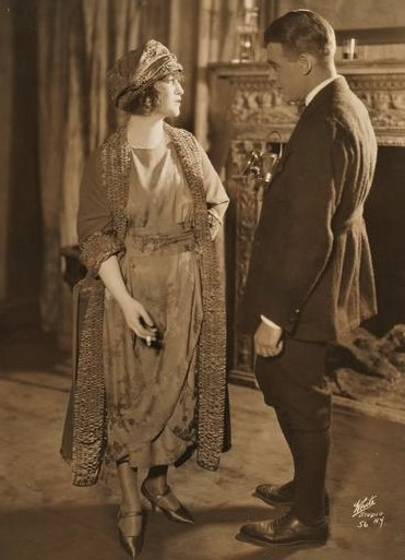 Francine Larrimore & Robert Ames in the Broadway's play Nice People - publicity still (cropped)